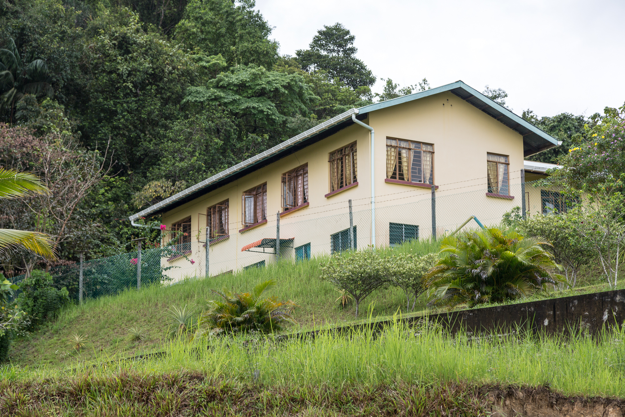 Sandakan, Sabah: St. Mary's Convent